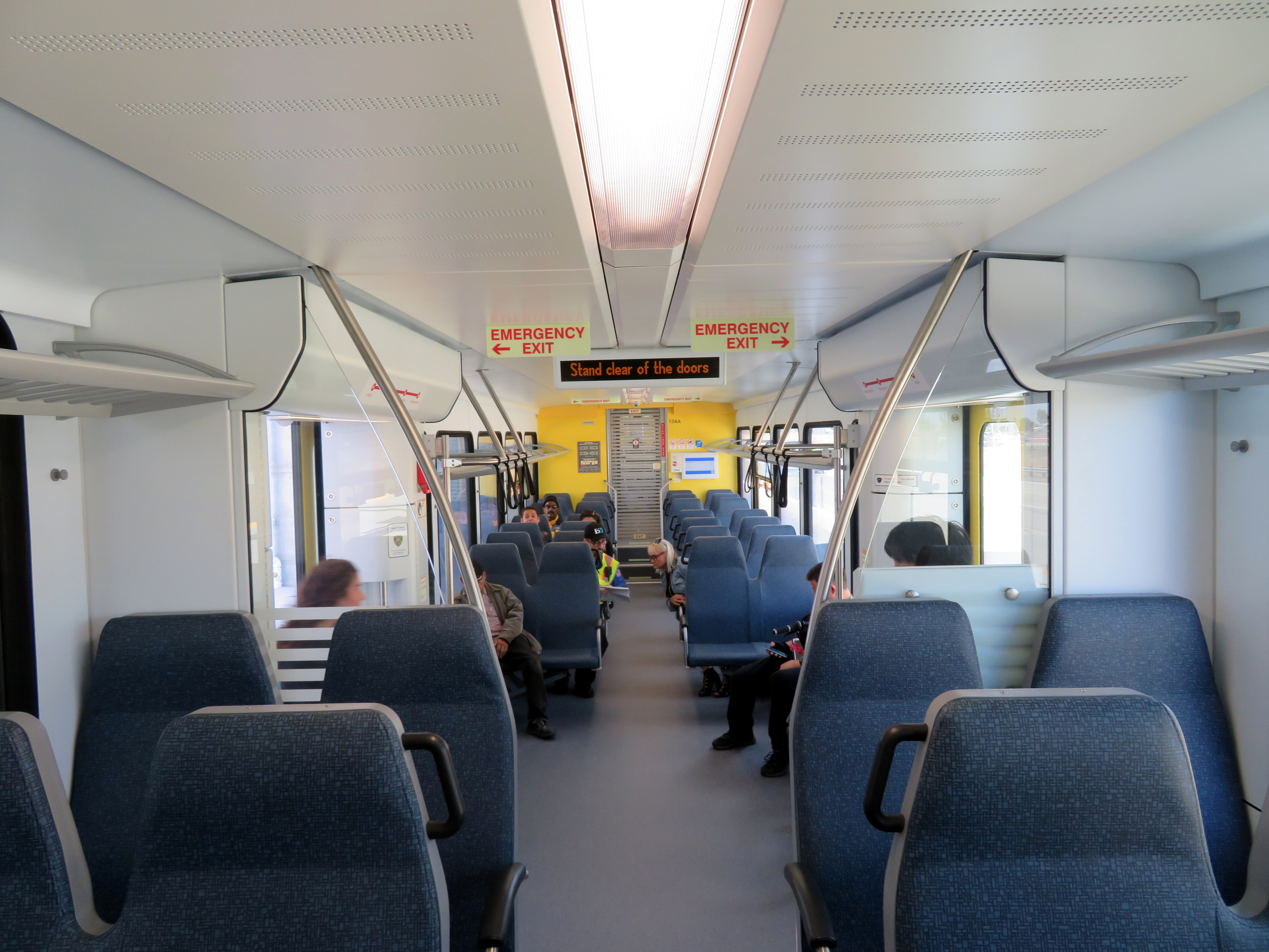 Interior of a train on the first day of eBART service in May 2018